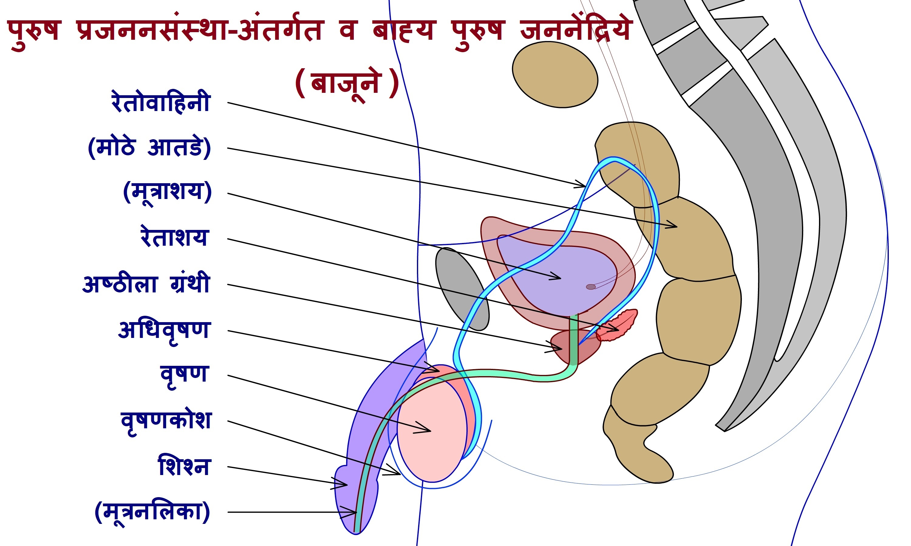 This figure shows Internal and external sex organs of Human Male Reproductive System in side view.